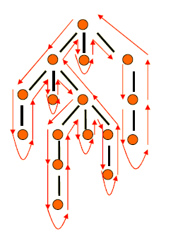 Traversal of tree data structure